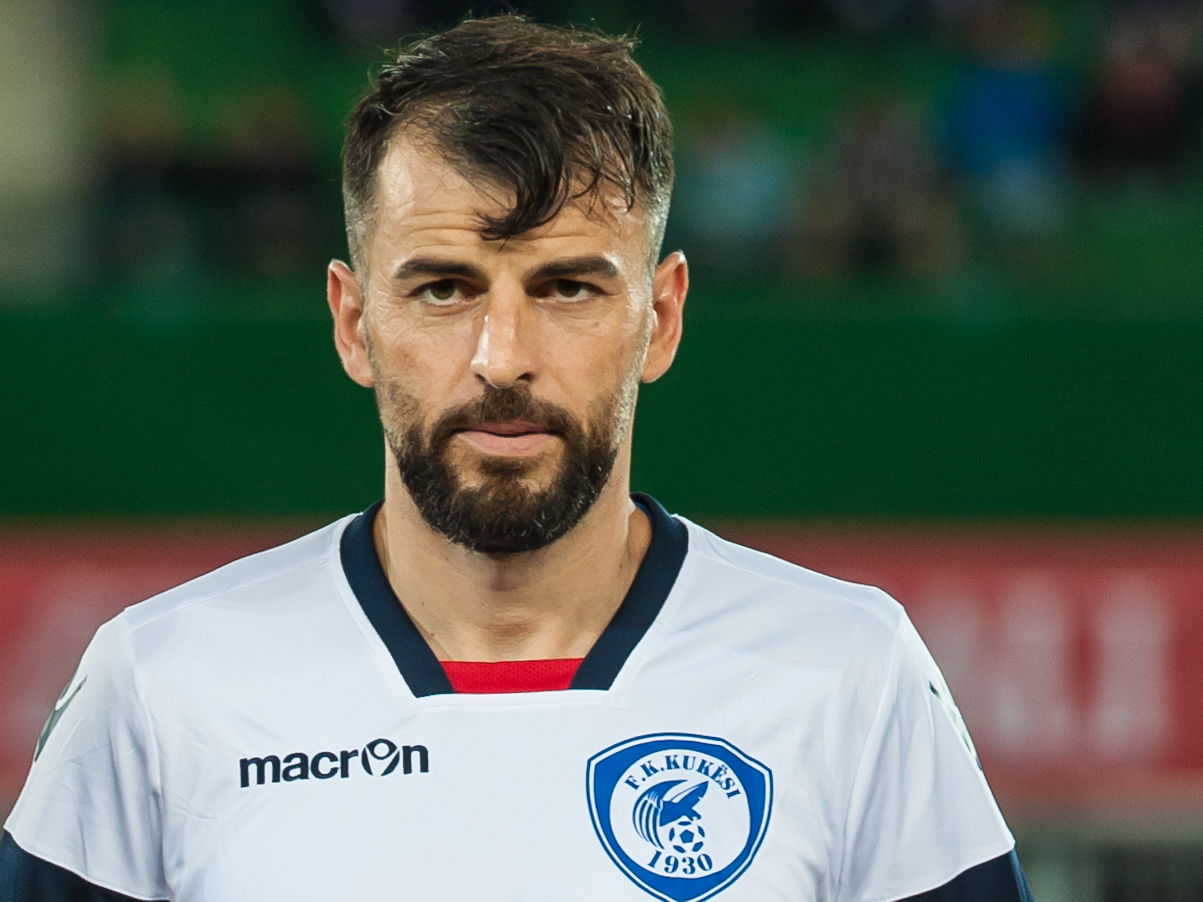 UEFA Europa League - FK Austria Wien vs FK Kukesi, 2016-07-14.